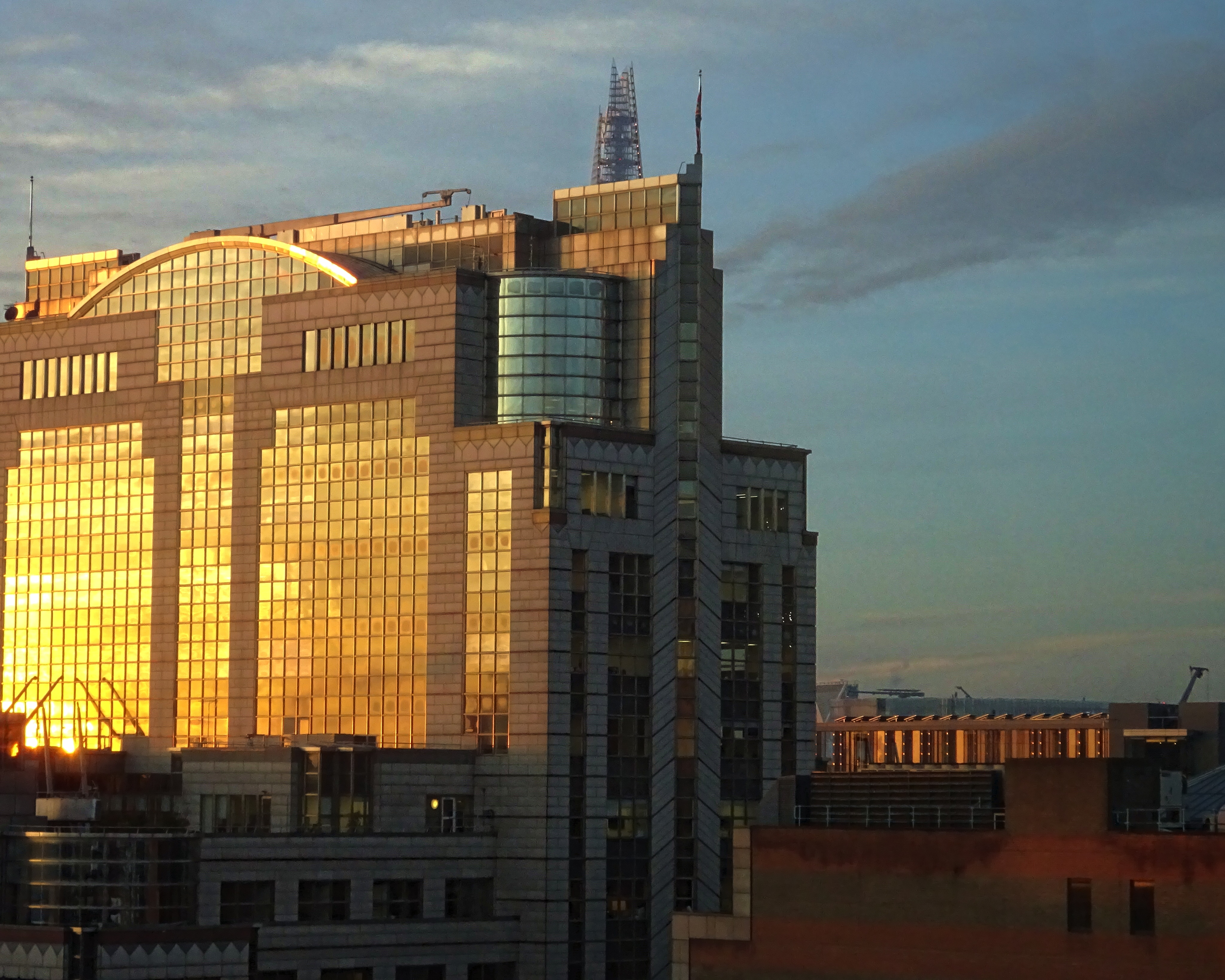 Seen at dawn; City of London; the Shard peeking out over the top.